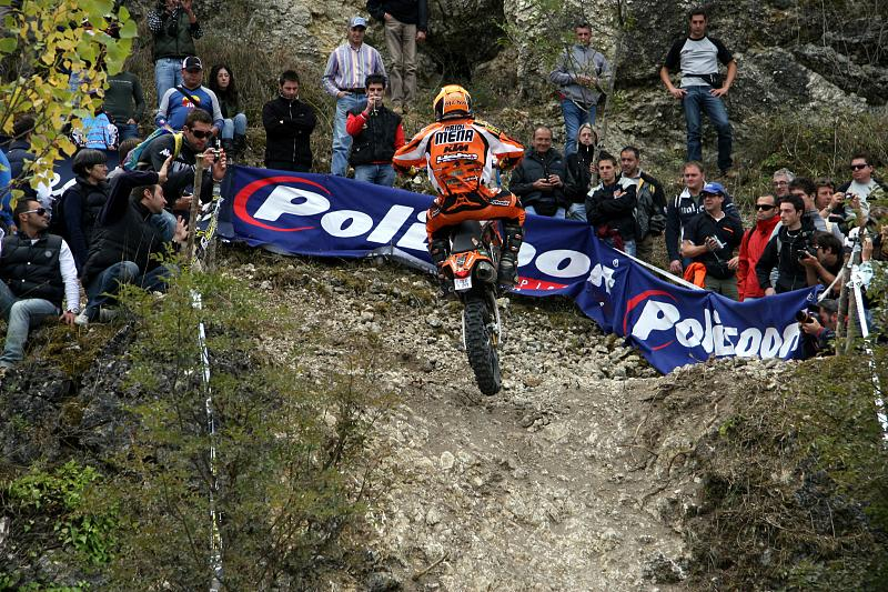 Junior class contestant Oriol Mena riding his KTM at the 2008 World Enduro Championship Grand Prix of Italy in Piediluco.